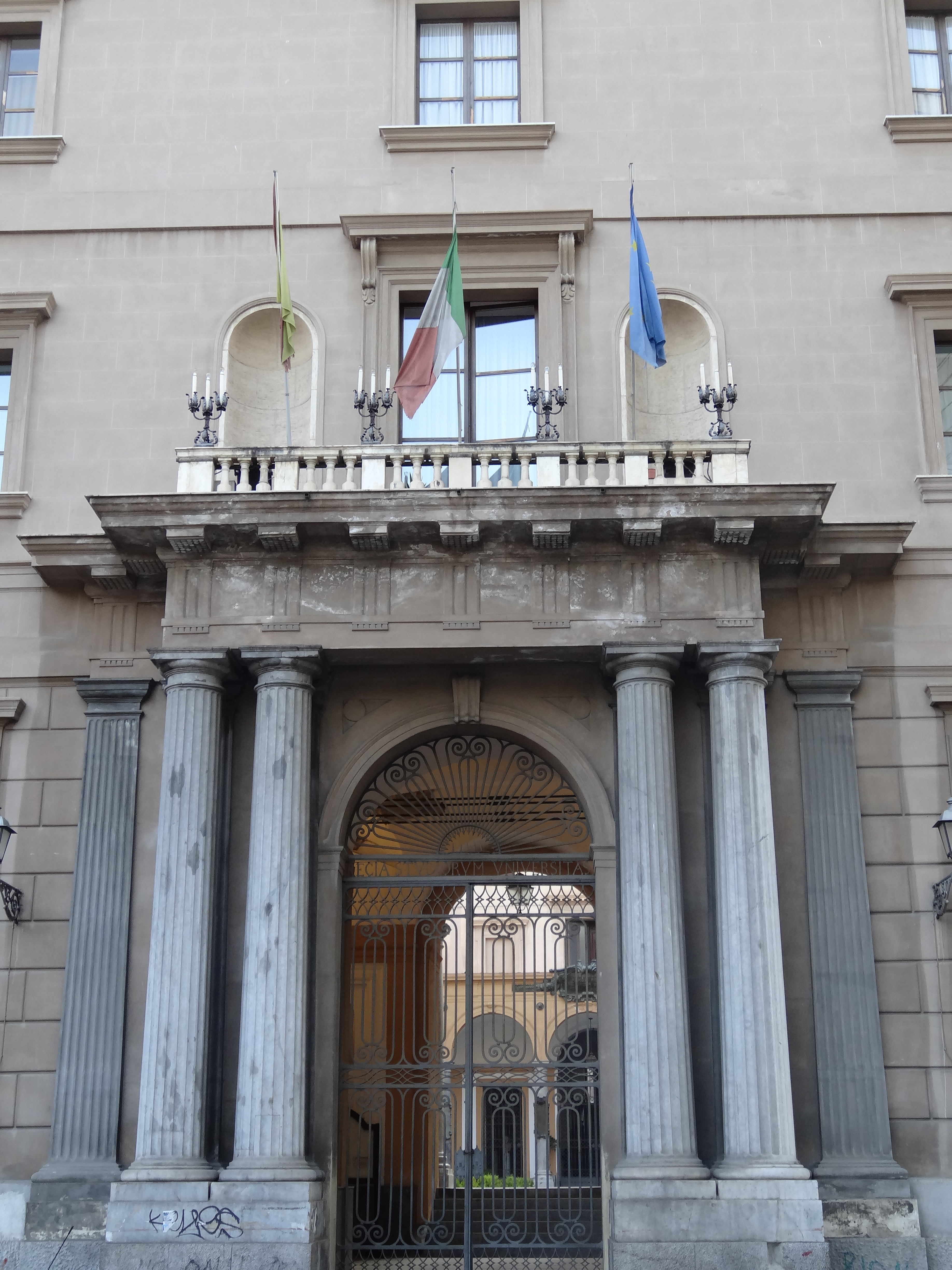 university of palermo